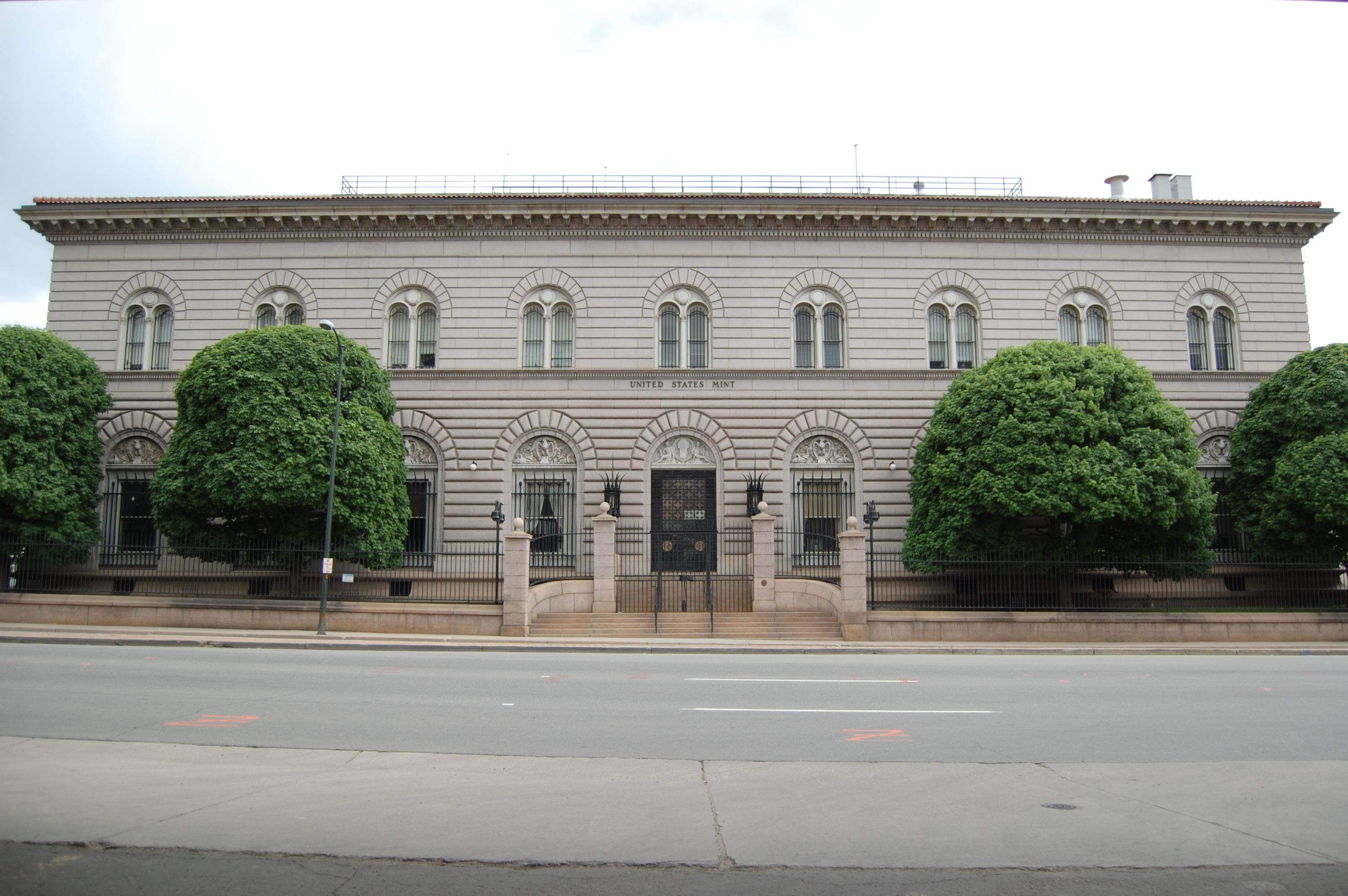 my own shot; release under gfdl